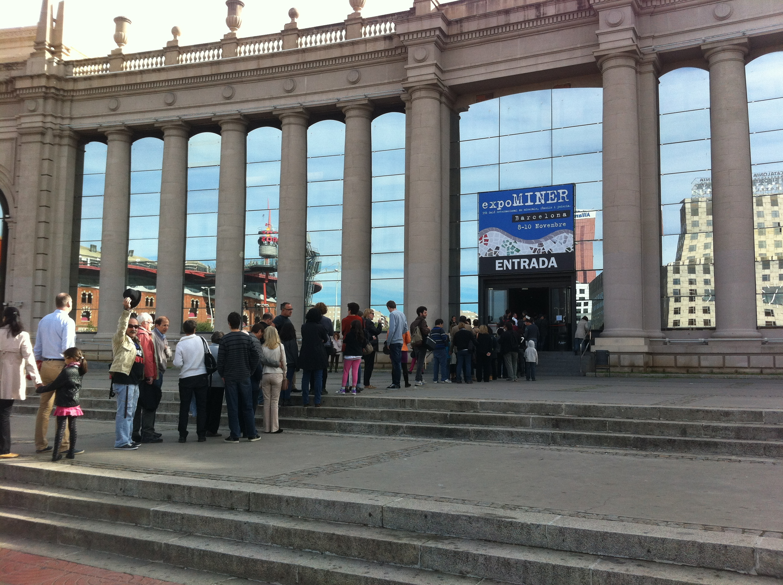 Entrance to the exhibition Expominer 2013